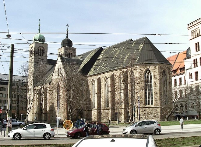 St. Sebastian's Church in Magdeburg